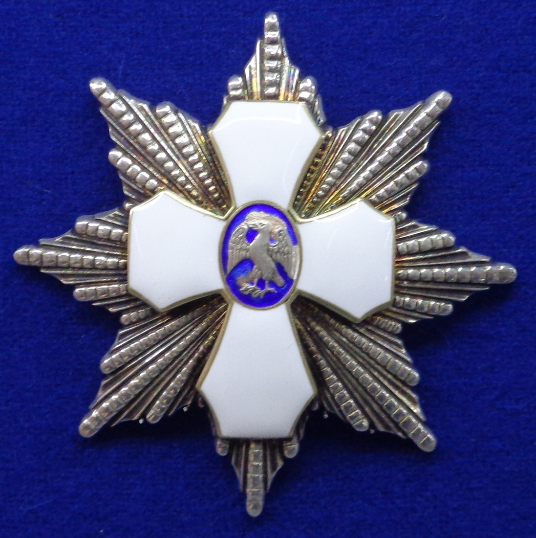 Order of the Falcon, star of Grand Cross, 1950-1970. Iceland. The exhibition of the Tallinn Museum of Orders of Knighthood, Estonia.